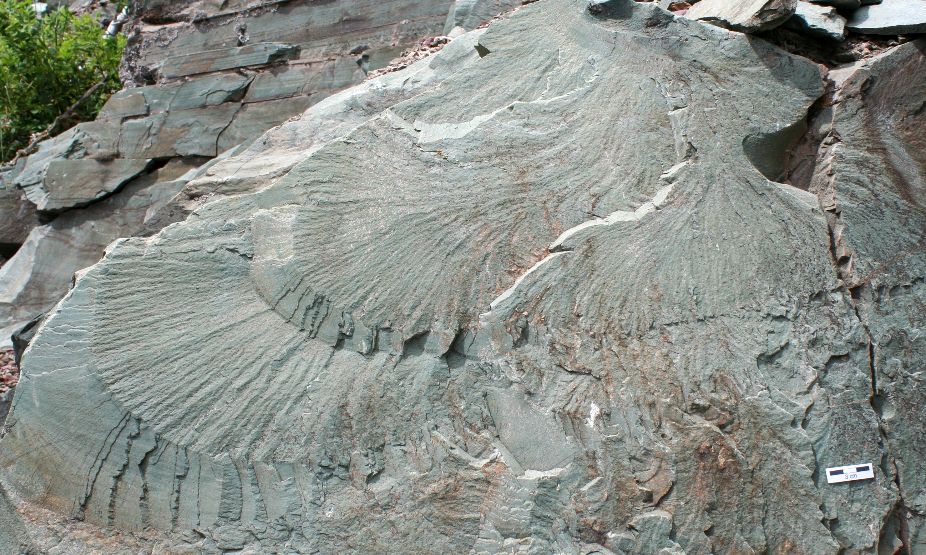 Detail of plumose fracture, Glacier National Park.